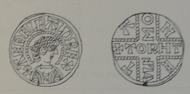 Drawing of fake coin of King Æthelbald of Wessex. All coins of Æthelbald have been identified as forgeries (Rory Naismith, Money and Power in Anglo-Saxon England, 2012, p. 125)